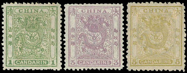 smalldragon